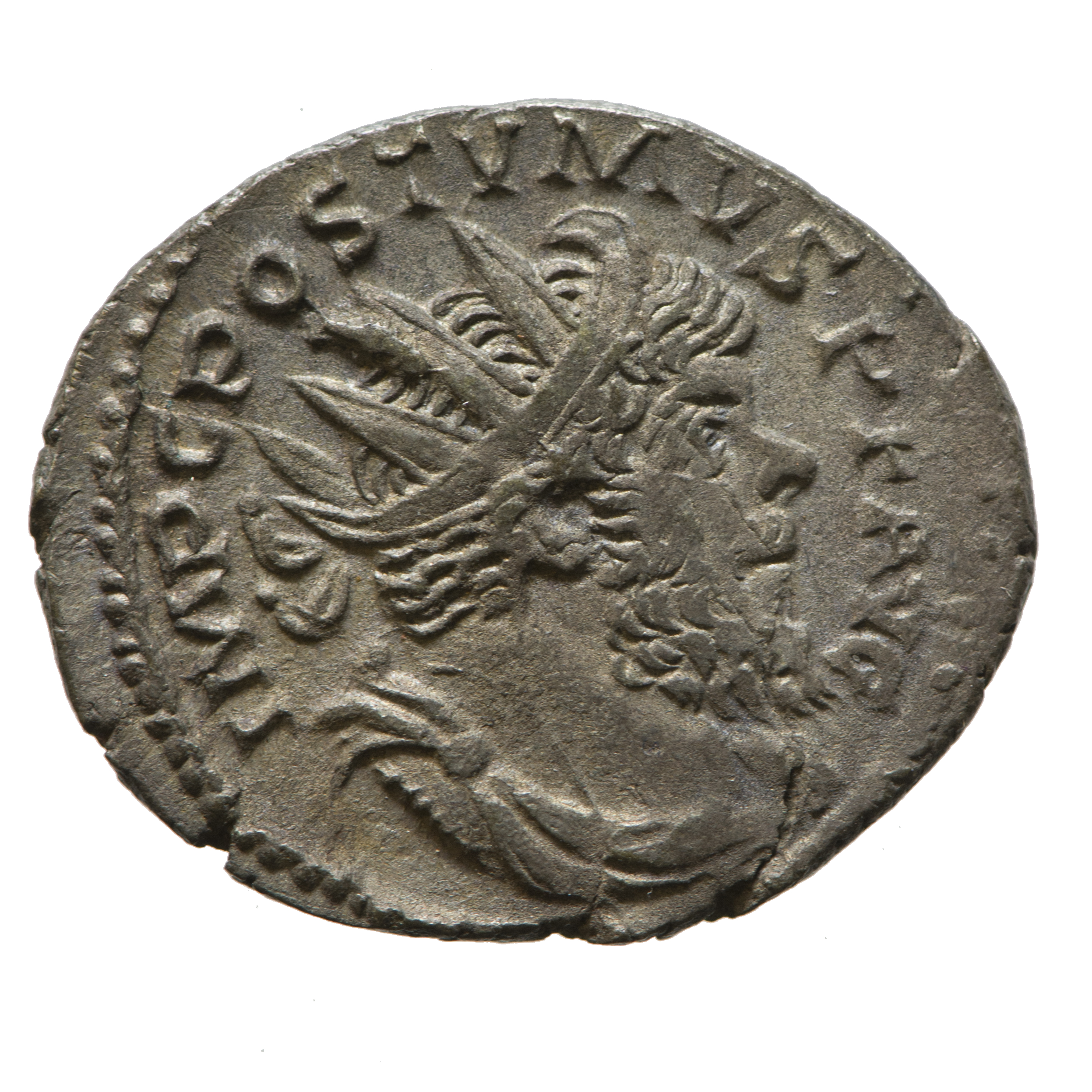 Obverse (front) of a Radiate of w: Postumus, showing head right radiate. Cuirassed, draped